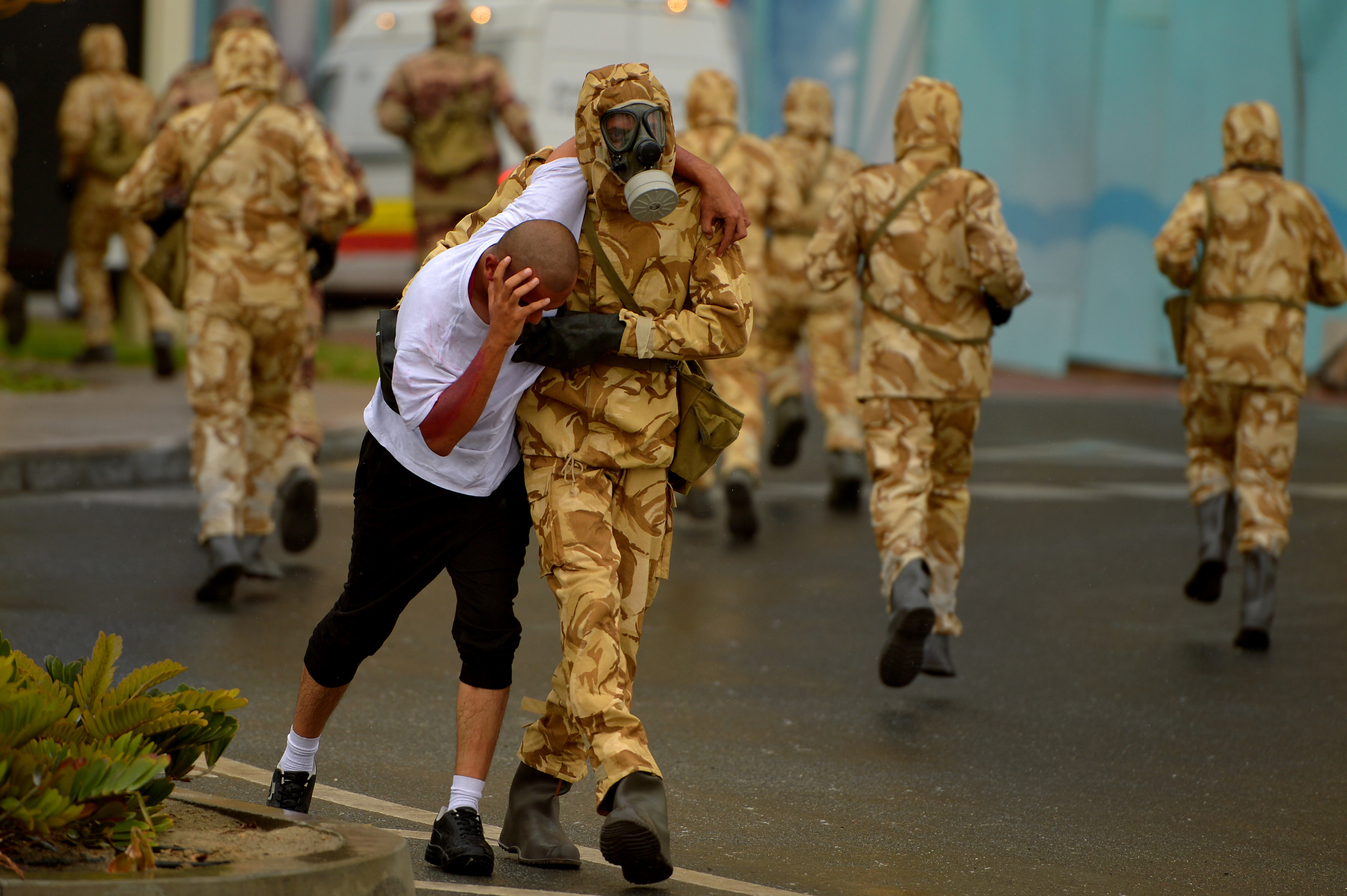 A Qatar armed forces sergeant evacuates a casualty of a simulated ballistic missile attack during an exercise scenario in Doha, Qatar, April 30. Emergency responders from Qatar and the United Arab Emirates acted quickly as smoke bombs and fake grenades produced explosion sounds simulating a ballistic missile strike, resulting in a chemical and biological outbreak and mass casualties. The scenario took place as a part of Exercise Eagle Resolve 2013. (U.S. Air Force photo by Staff Sgt. Kenny Holston/Released)